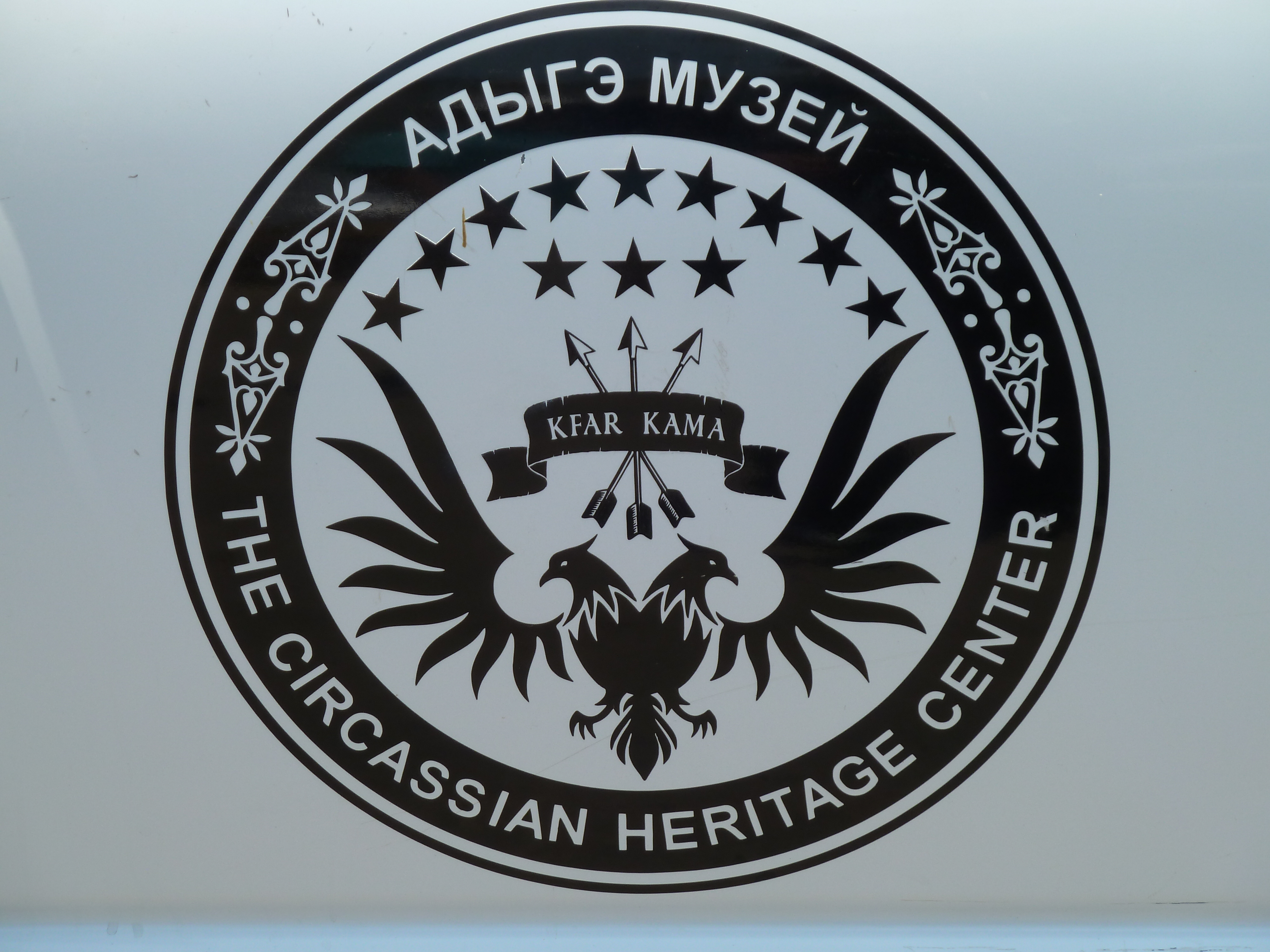 The Circassian village of Kfar Kama, the Lower Galilee, Israel This image was taken as part of the Elef Millim project trip to the Circassian town of Kfar Kama in the Lower Galilee, which was held on Friday, 22nd June 2012. To view all images uploaded as part of the Elef Millim Project